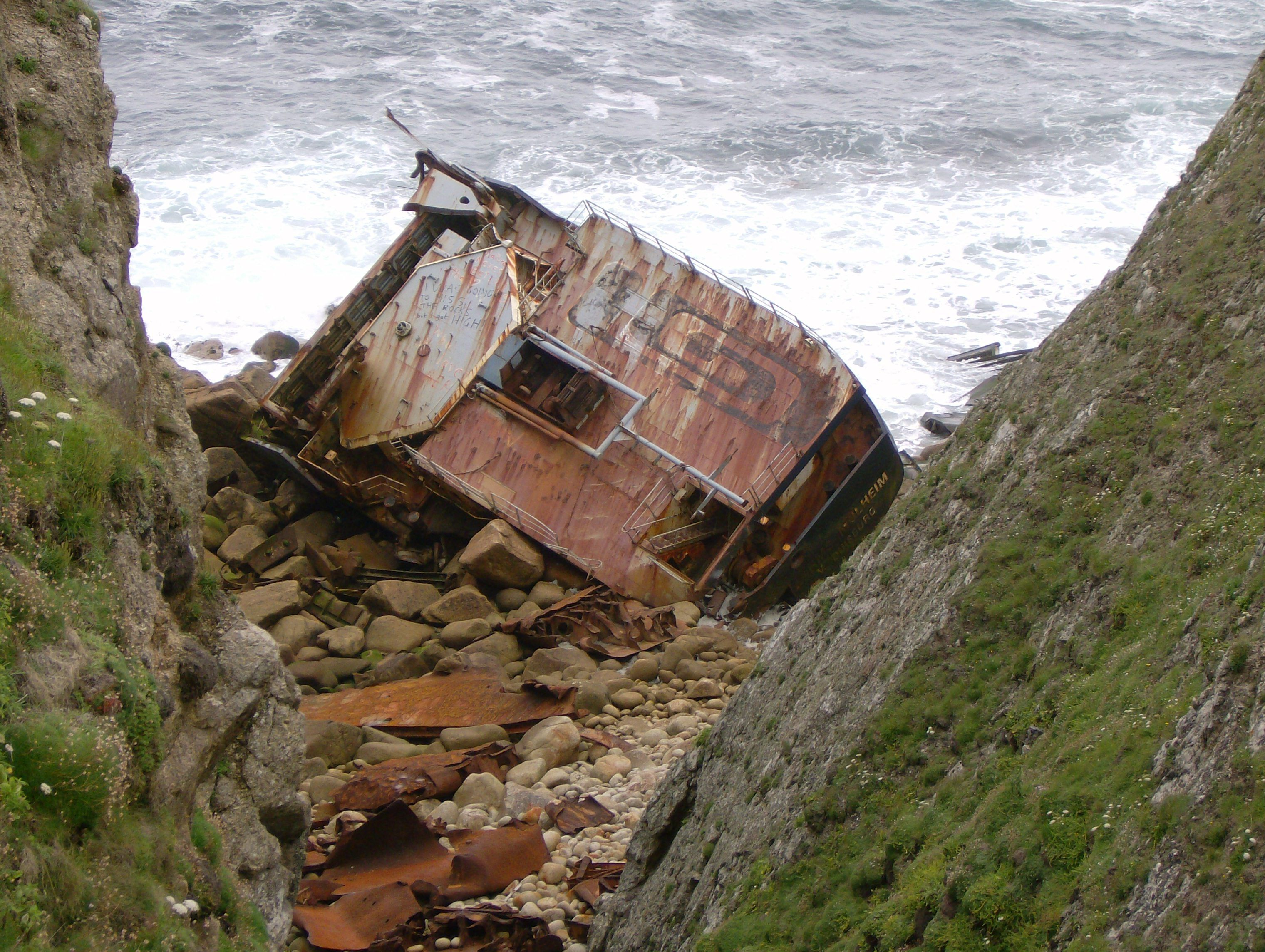 Wreck of the cargo ship MSR Mülheim from Duisburg, Germany at the riff at Land's End (2007)